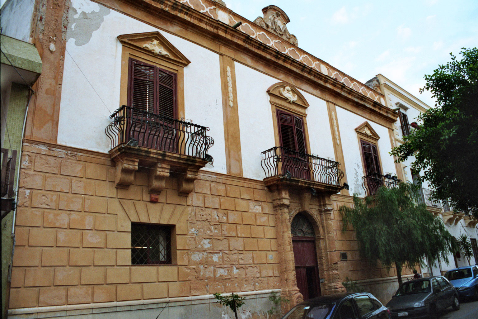 Terrasini, Italy Palazzo Cataldi (18th century), formerly La Grua-Talamanca, seat of the public library